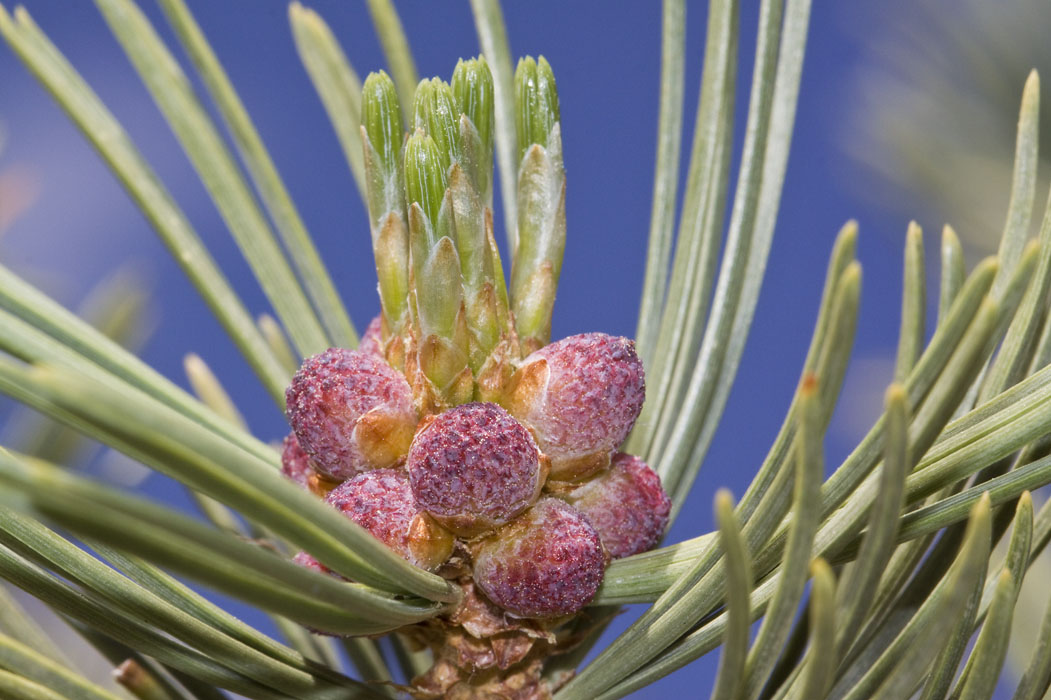 Pinus albicaulis pollen cones. Tahoe Meadows, Washoe Co., Nevada, USA.